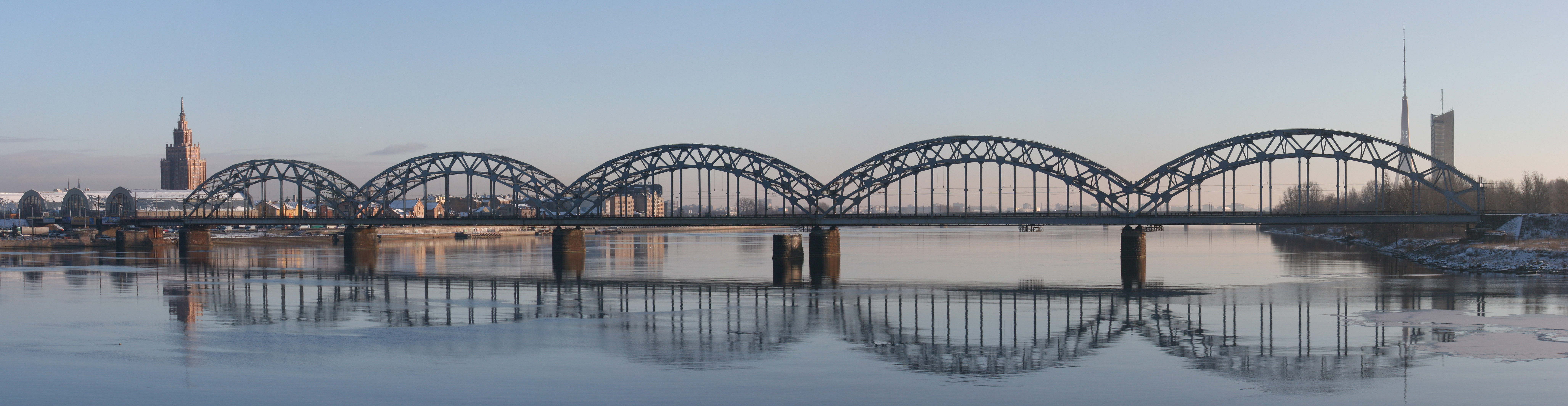 The Railway bridge over Daugava River in Riga, Latvia.